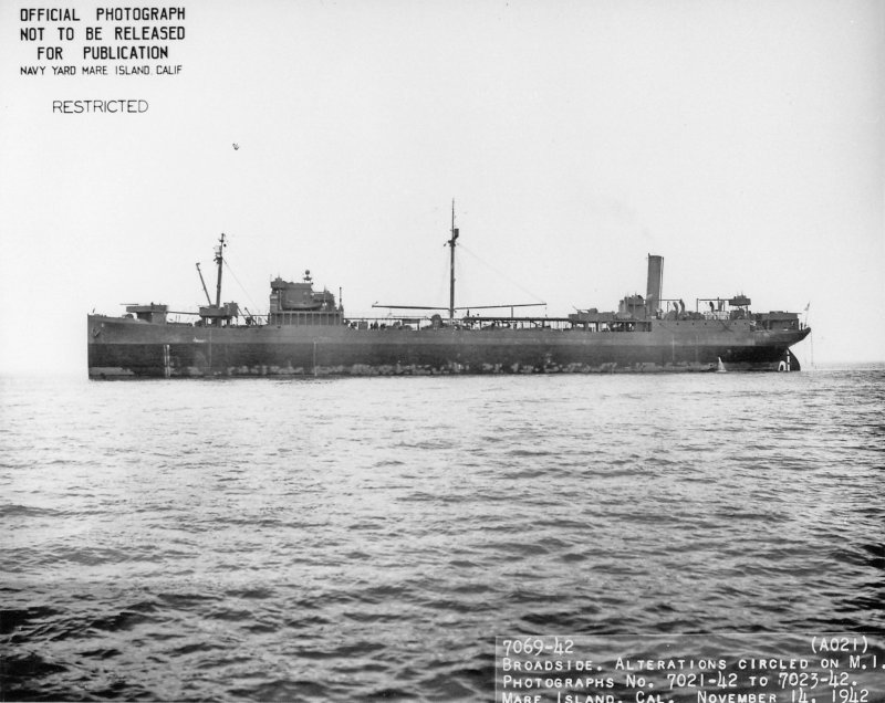 Broadside view of Tippecanoe (AO-21) off Mare Island, 14 November 1942. Tippecanoe was at Mare Island for repairs from 12 October to 12 November 1942. Mare Island Navy Yard photo # 7069-11-42